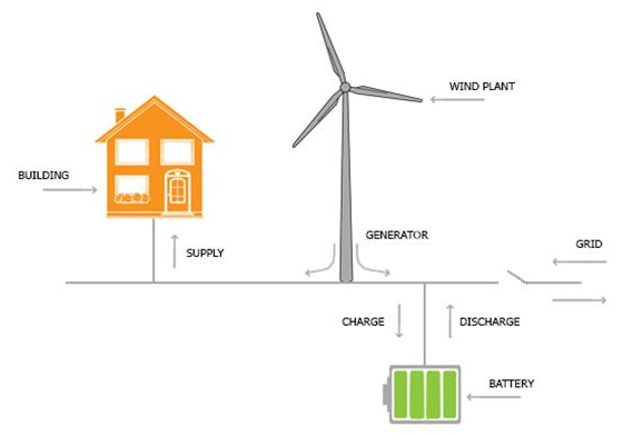 Scheme of a microgrid which includes: RES; BESS; FLEXIBLE LOAD, GRID-CONNECTED